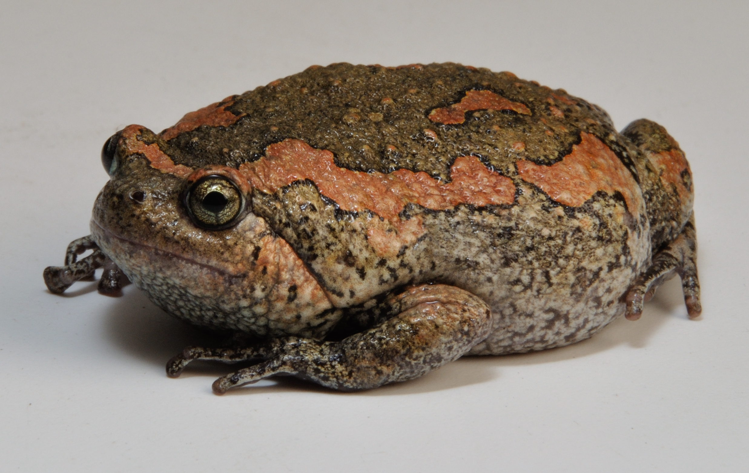 Kaloula taprobanica (Parker, 1934) or Sri Lankan Bullfrog or Sri Lankan Painted Frog is a species of narrow-mouthed frog found in Sri Lanka, Bangladesh and some eastern and southeastern parts of India. This amphibian has found at Sector V, Salt Lake City (Bidhan Nagar), Kolkata. Photographed at studio environment.